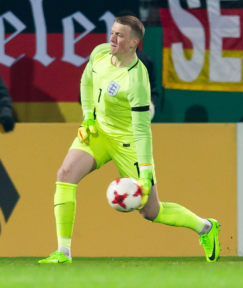 Football U21 Germany vs England (1:0) Team Germany 12 Julian Pollersbeck (1. FC Kaiserslautern) 1 Marvin Schwäbe (Dynamo Dresden) 23 Odisseas Vlachodimos (Panathinaikos Athen) 16 Kevin Akpoguma (Fortuna Düsseldorf) 3 Yannick Gerhardt (VfL Wolfsburg) 5 Matthias Ginter (Borussia Dortmund) 22 Benjamin Henrichs (Bayer 04 Leverkusen) 15 Marc-Oliver Kempf (SC Freiburg) 4 Niklas Stark (Hertha BSC) 13 Jeremy Toljan (1899 Hoffenheim) 2 Mitchell Weiser (Hertha BSC) 18 Nadiem Amiri (1899 Hoffenheim) 10 Maximilian Arnold (VfL Wolfsburg) 25 Hany Mukhtar (Brøndby IF) 7 Max Meyer (FC Schalke 04) 19 Janik Haberer (SC Freiburg) 21 Gideon Jung (Hamburger SV) 20 Levin Öztunali (1. FSV Mainz 05) 17 Maximilian Philipp (SC Freiburg) 9 Davie Selke (RB Leipzig) 27 Thilo Kehrer (FC Schalke 04) Team England 1 Jordan Pickford (Sunderland) 2 Mason Holgate (Everton) 13 Angus Gunn (Manchester City) 21 Christian Walton (Brighton) 16 Kortney Hause (Wolverhampton) 5 Jack Stephens (Southampton) 15 Rob Holding (Arsenal) 12 Joe Gomez (Liverpool) 3 Ben Chilwell (Leicester City) 6 Alfie Mawson (Swansea City) 22 Sam McQueen (Southampton) 4 Nathaniel Chalobah (Chelsea) 14 Will Hughes (Derby County) 20 Ruben Loftus-Cheek (Chelsea) 10 Lewis Baker (Vitesse Arnheim) 18 John Swift (Reading) 23 Jack Grealish (Aston Villa) 8 Harry Winks (Hotspur) 19 Cauley Woodrow (Fulham) 9 Tammy Abraham (Bristol City) 17 Solly March (Brighton) 11 Jacob Murphy (Norwich) during Fussball U21 Deutschland vs England at Brita-Arena, Wiesbaden, Hessen, Germany on 2017-03-24, Photo: Sven Mandel